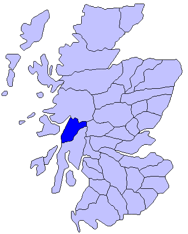 Map showing roughly the district of Lorne in Scotland.